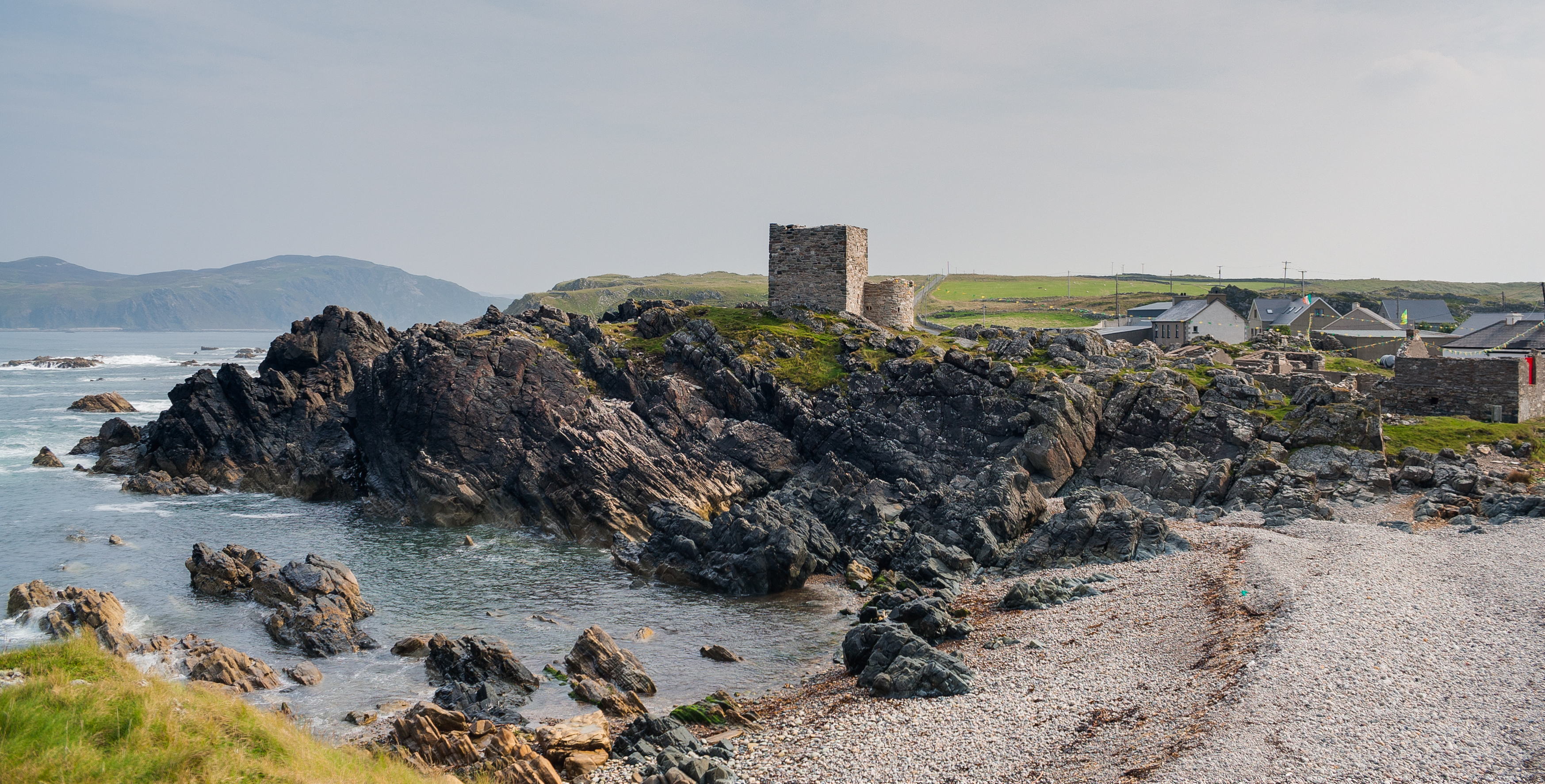 West view of Carrickabraghy Castle on its rock.